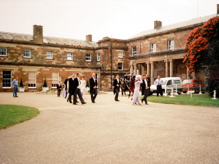 Colour-corrected version of :Image:Hillsboroughcastleside.JPG. Corrections by me to PD image.